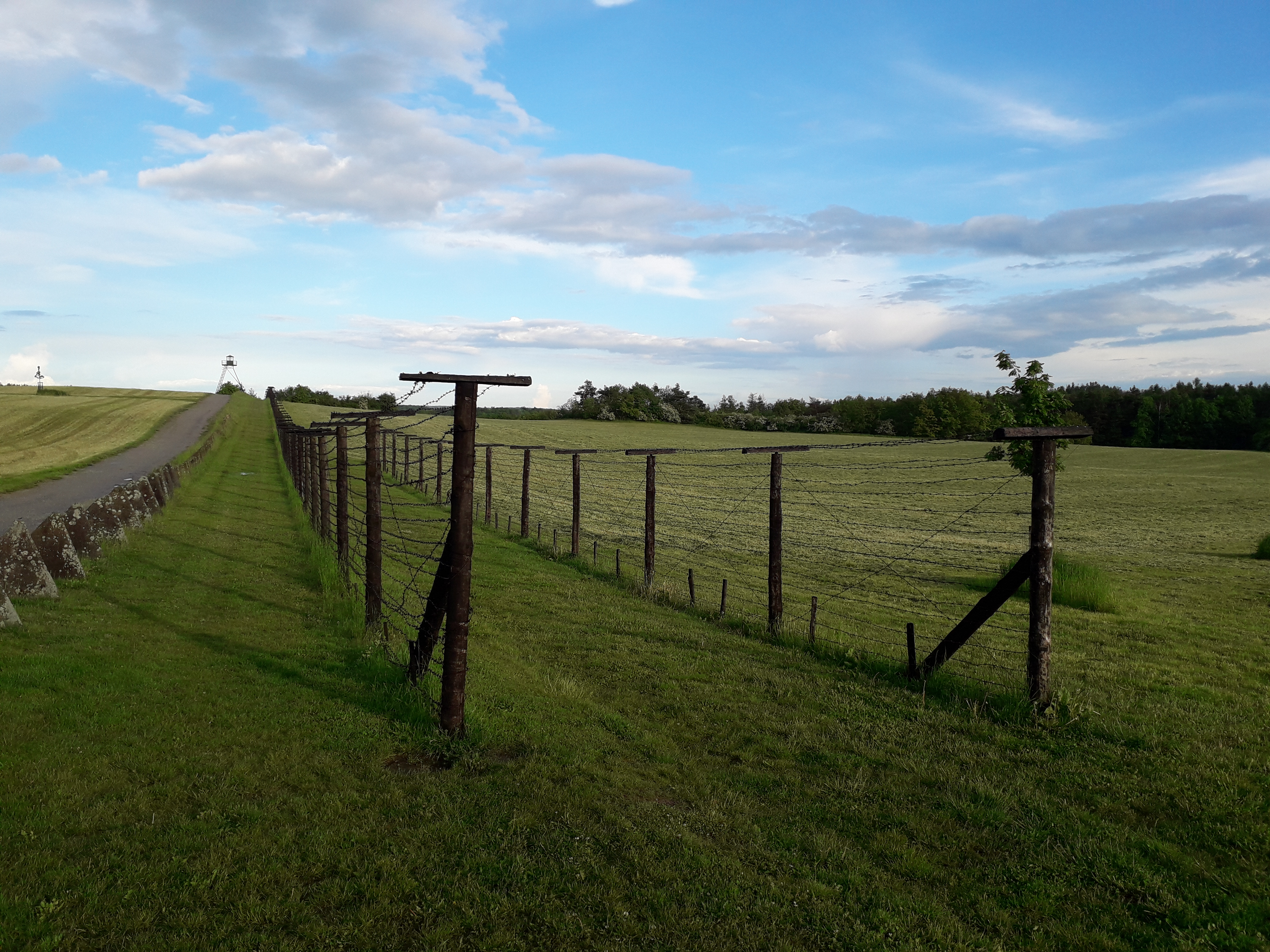 Iron curtain in Čížov